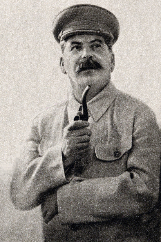 A cropped section of a photograph of Stalin taken in 1937. The original image depicts Molotov to his left, and Voroshilov to his right